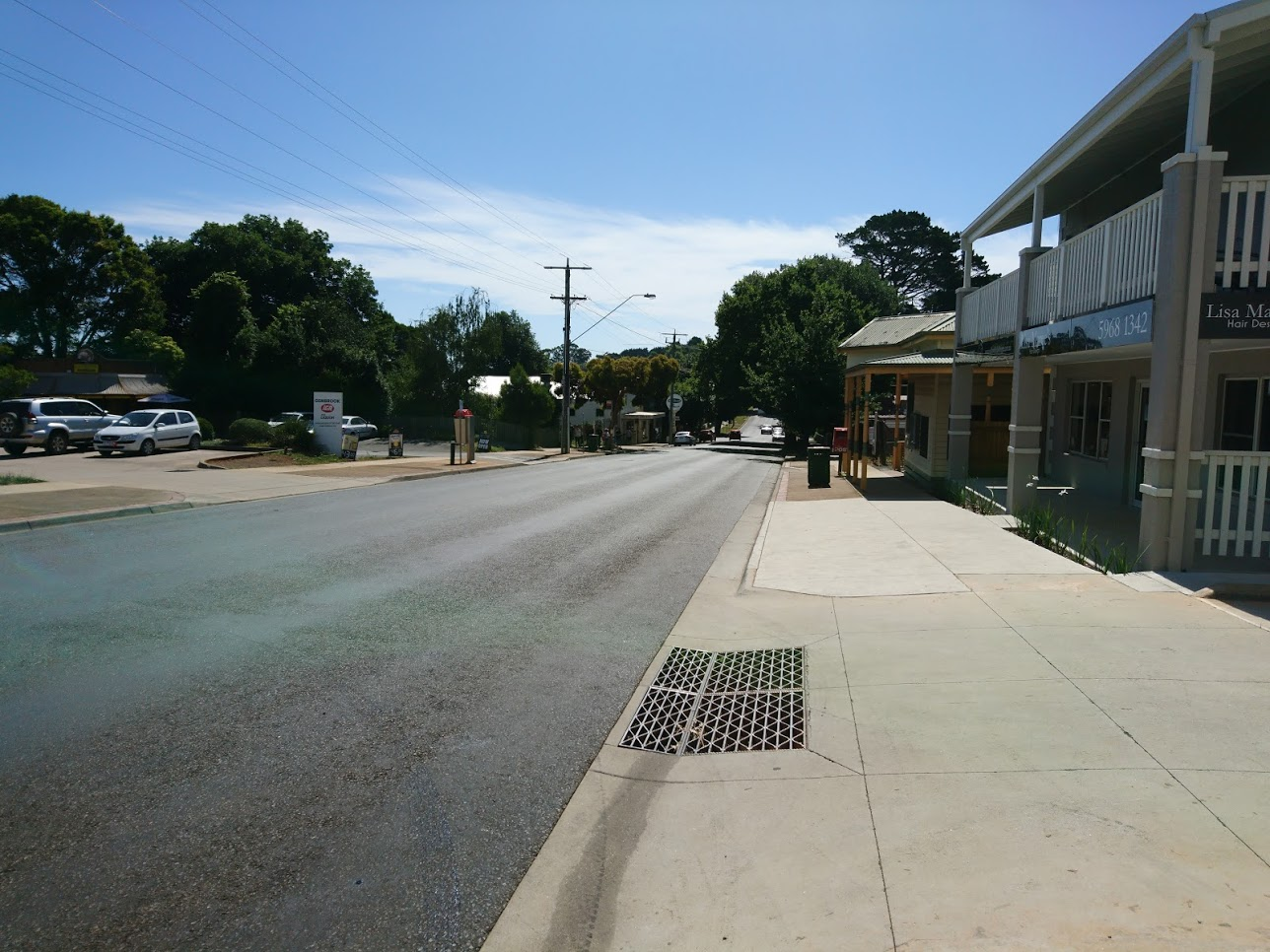 An eastbound view of Gembrook's Main street.